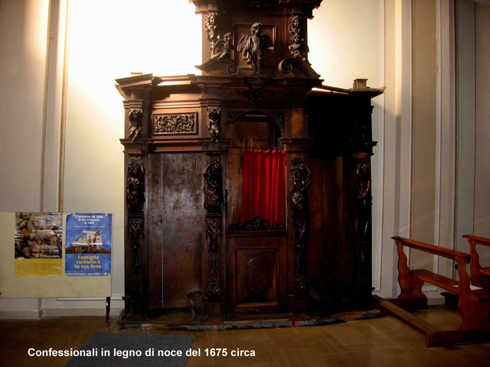 Esino Lario.